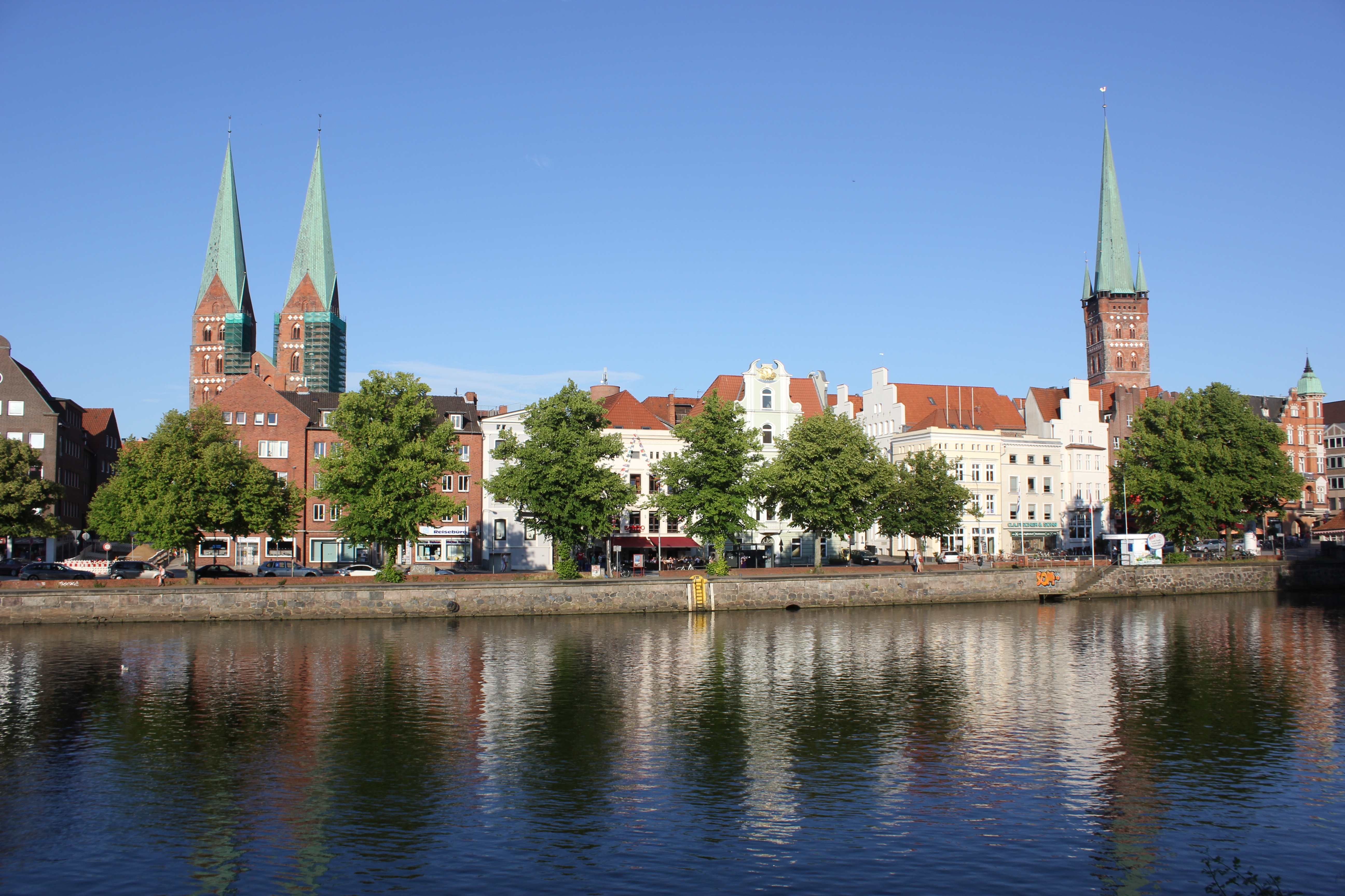 Lübeck - Untertrave